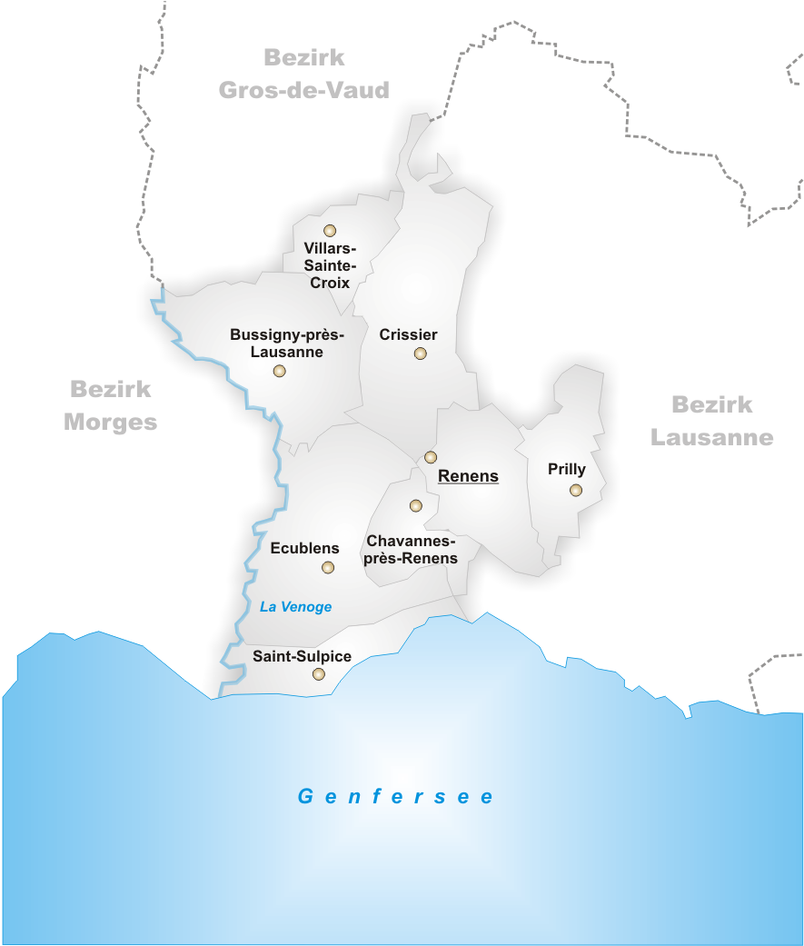 Municipalities of District Ouest Lausannois from 2008